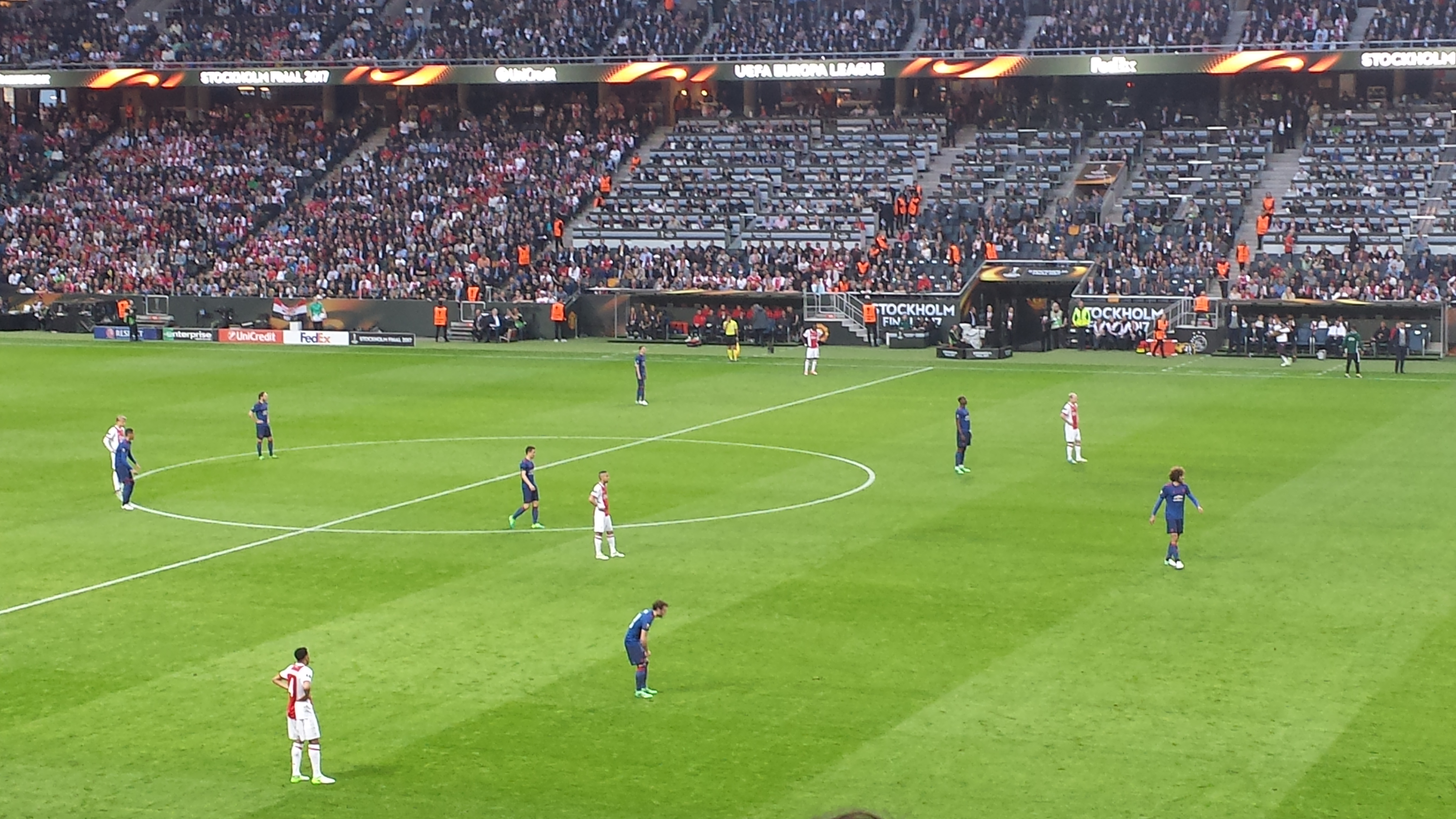 2017 UEFA Europa League Final Ajax vs Manchester United First Half 24 May 2017